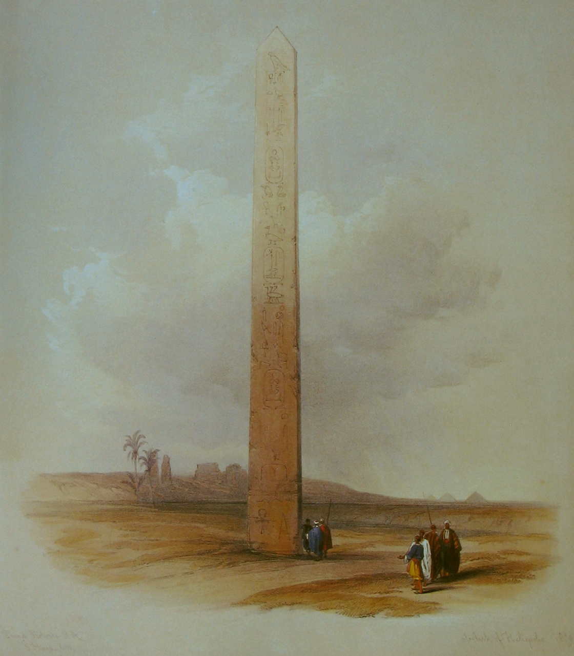 Obelisk of On